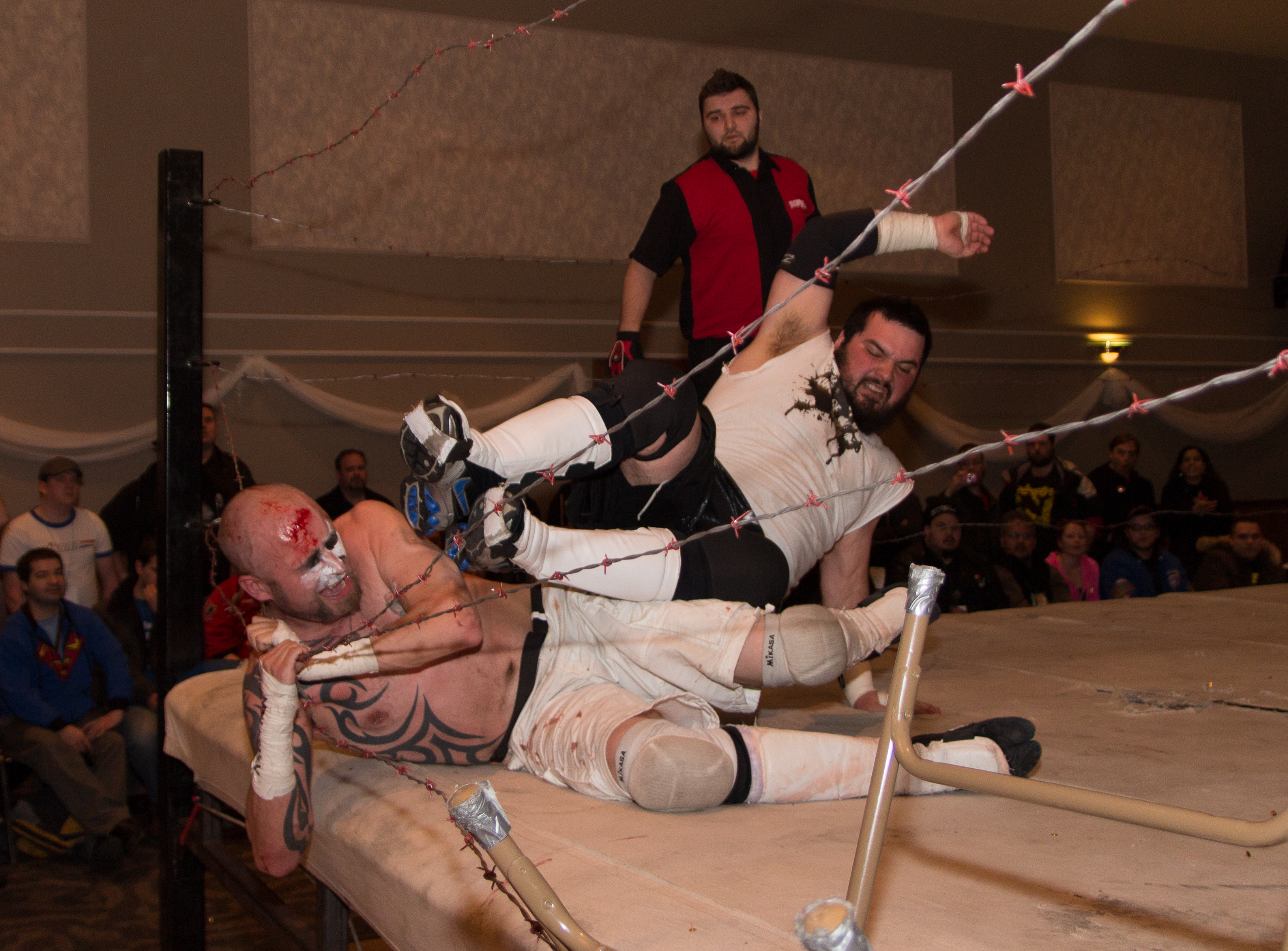 Joey Kings (right, in white top) dropkicks Warhed into the barbed wire ropes at a independent wrestling show in London, ON